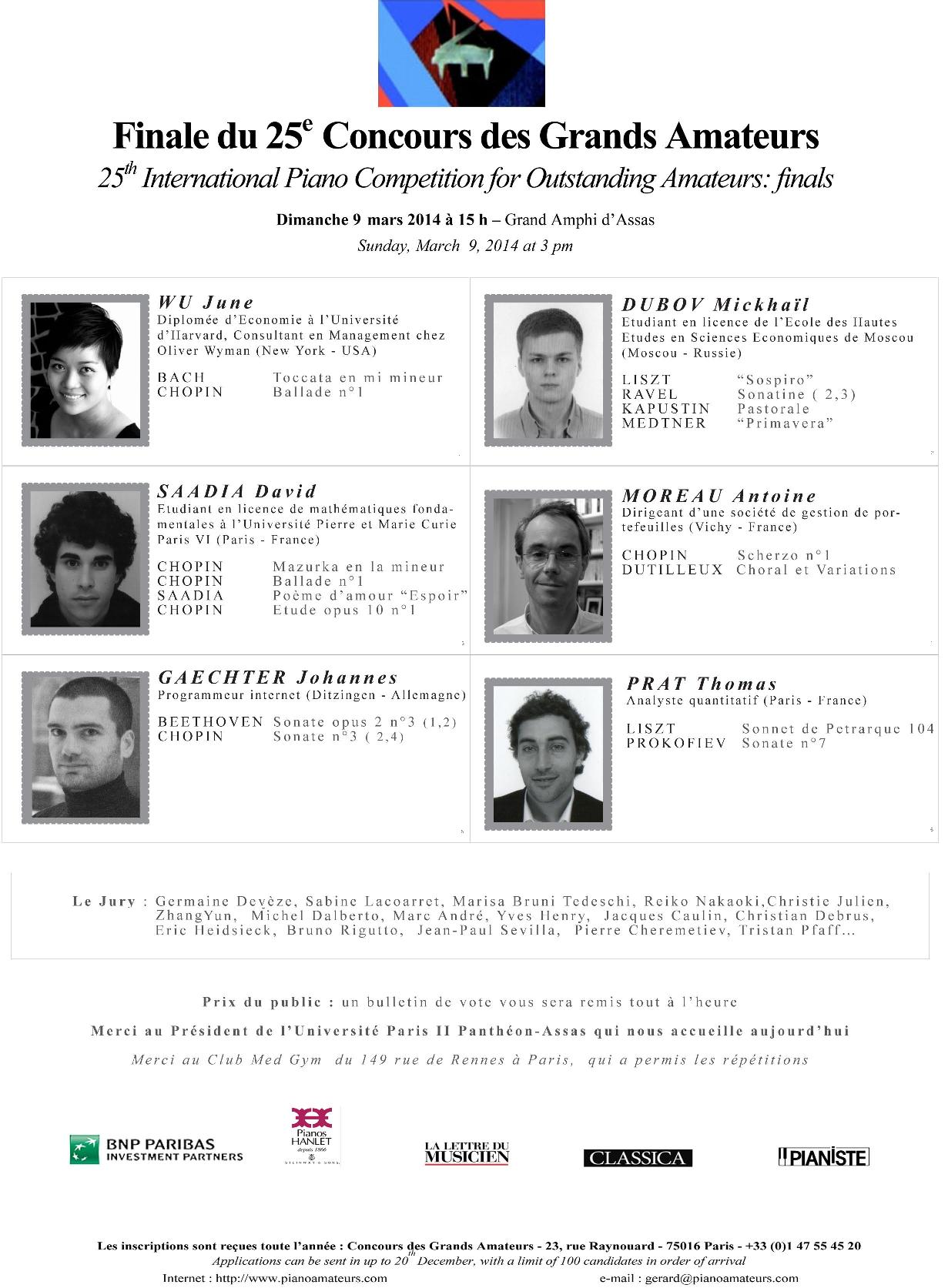 XXV Concours des Grands Amateurs de Piano - Finale poster